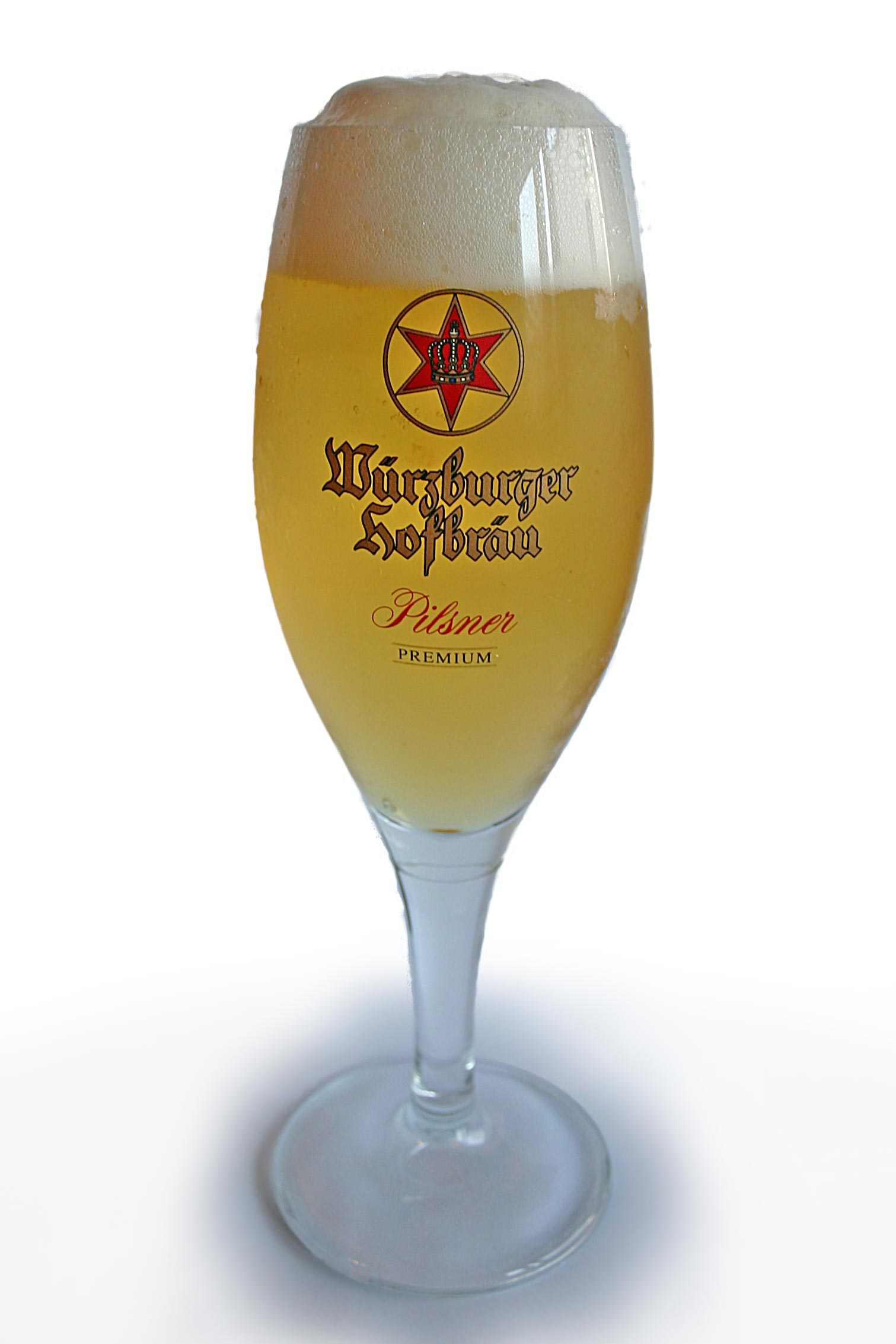 Glas of german "Würzburger Hofbräu" beer, enjoy cold!